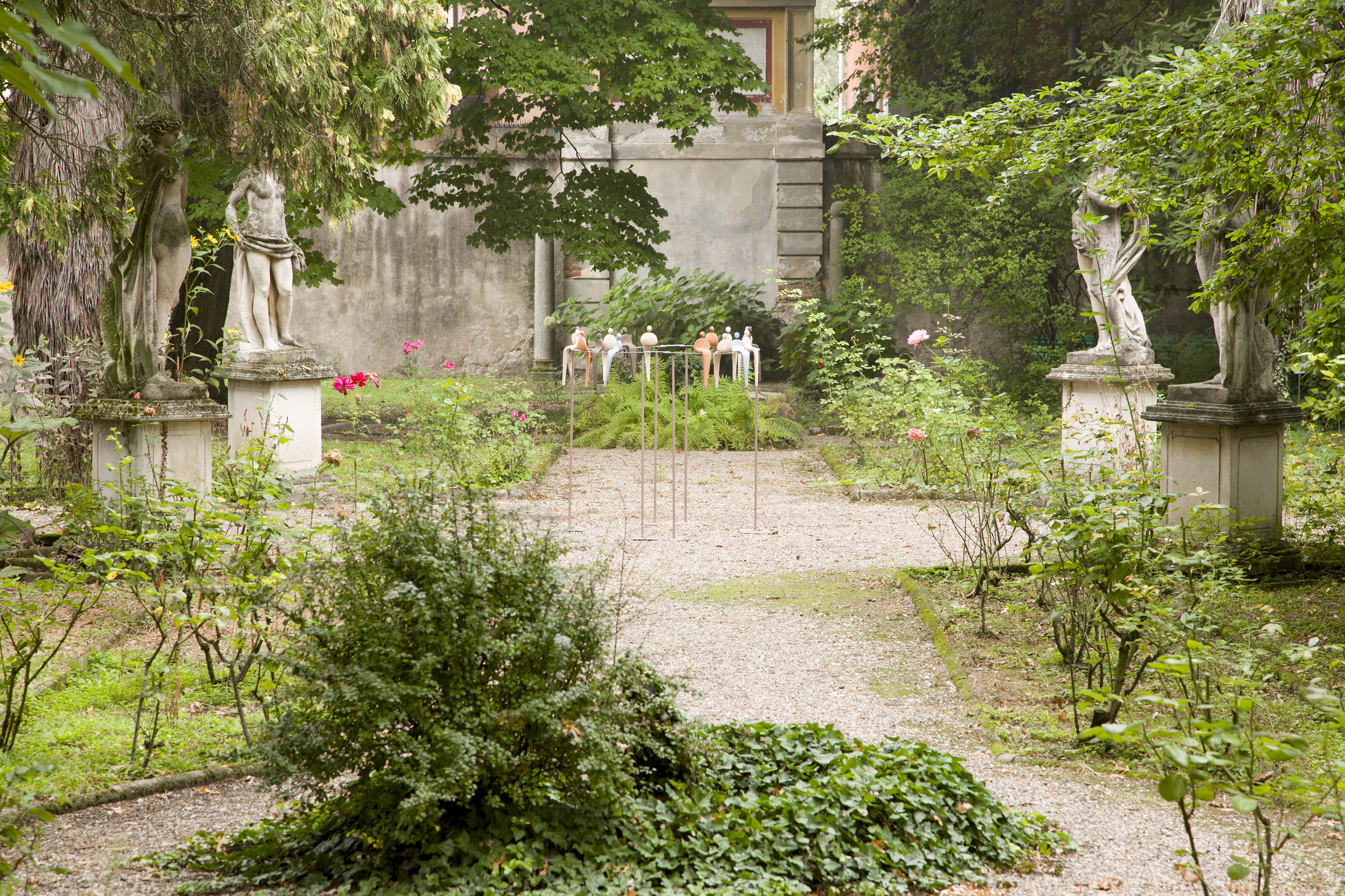 This is a photo of a monument which is part of cultural heritage of Italy.